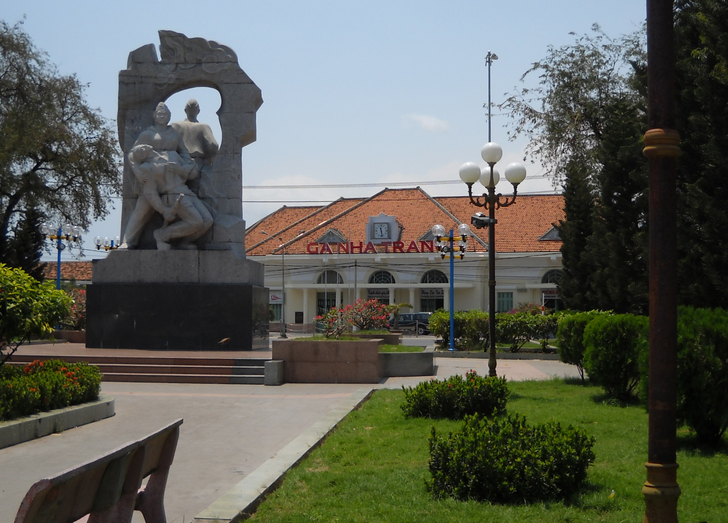 Nha Trang Railway Station, Khanh Hoa Province.